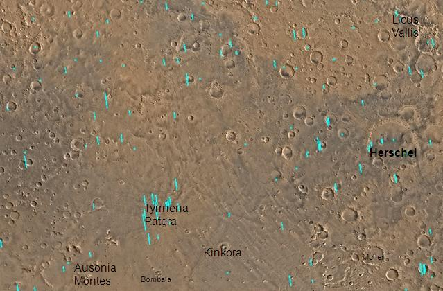 Map of Mare Tyrrhenum quadrangle with labels. The small, colored rectangles represent image footprints for the narrow angle camera on the Mars Global Surveyor. Some are about 1 mile wide, the others are about 2 miles wide.